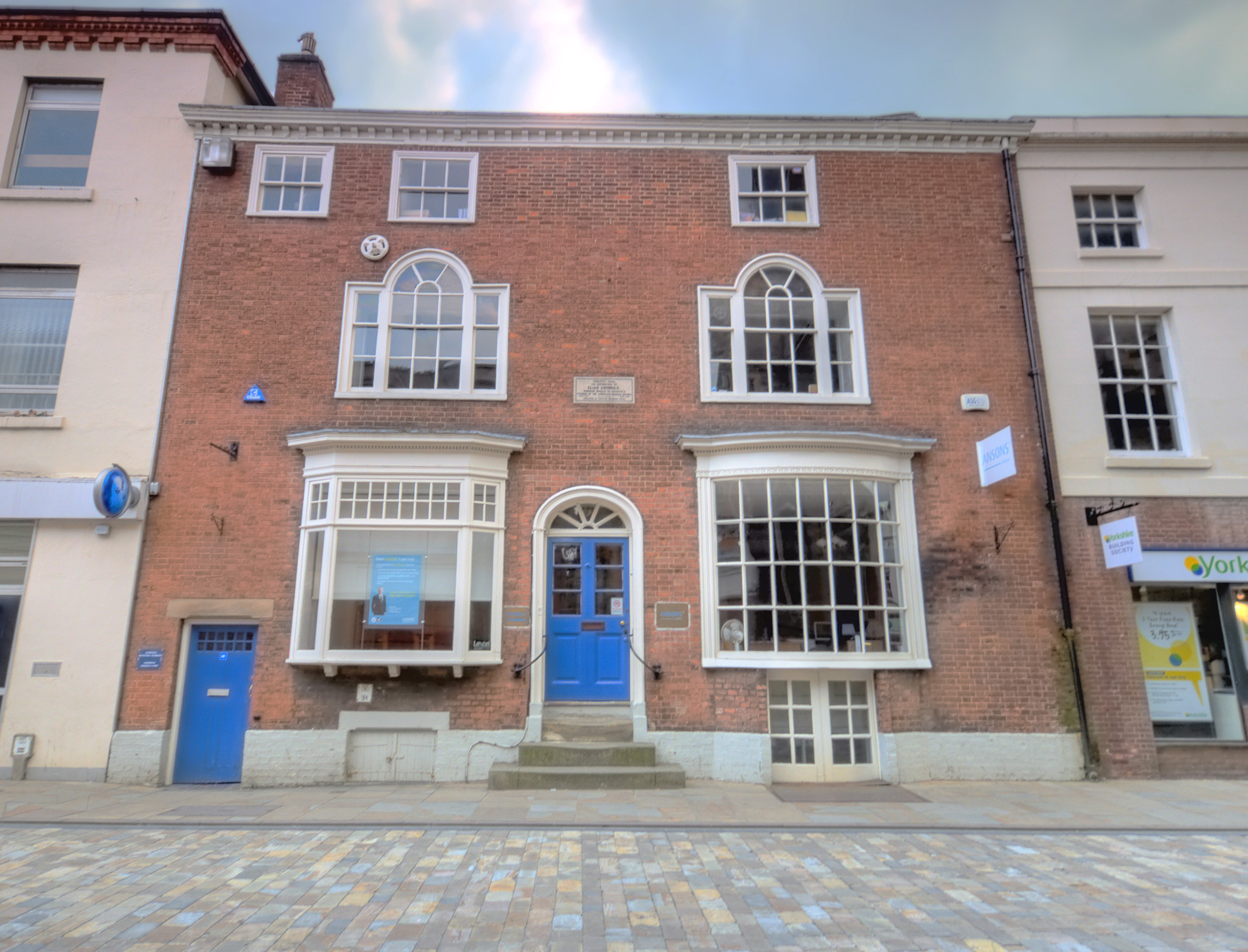 The house in which Elias Ashmole was born, Breadmarket Street, Lichfield, Staffordshire, UK